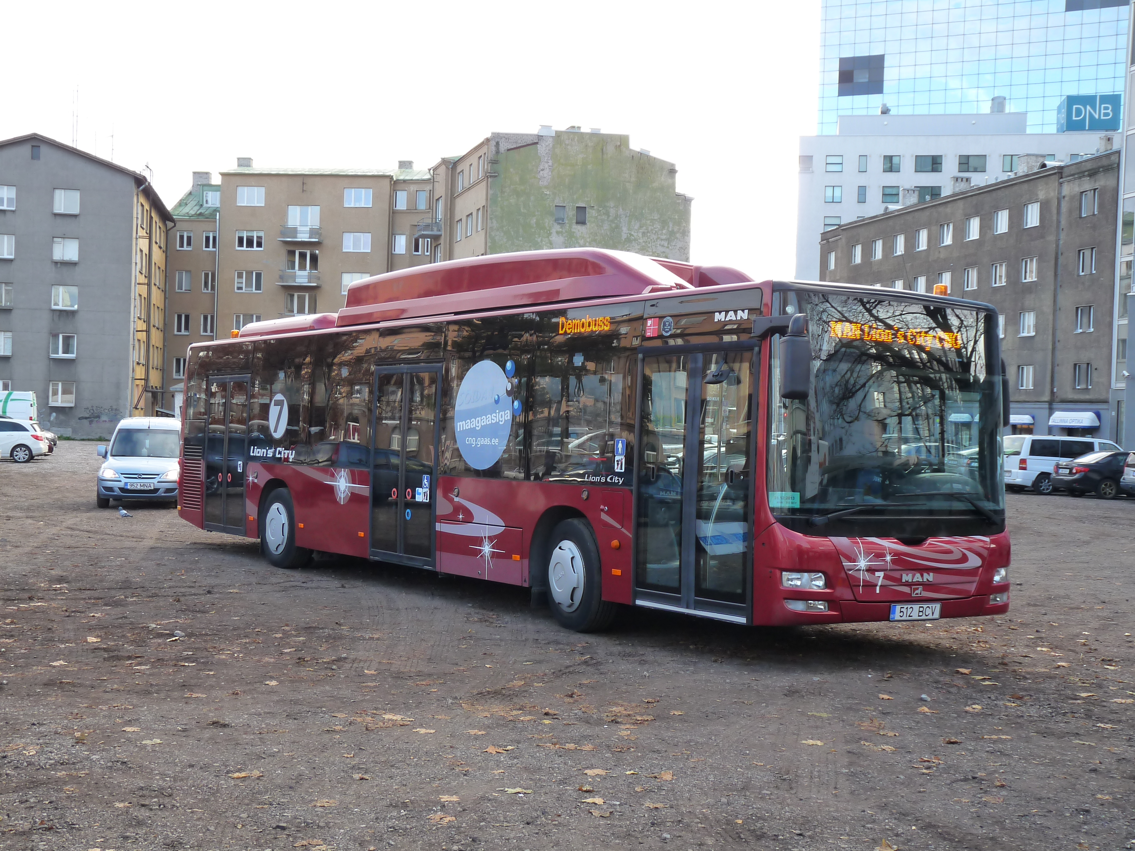 MAN bus in Tallinn, Estonia.